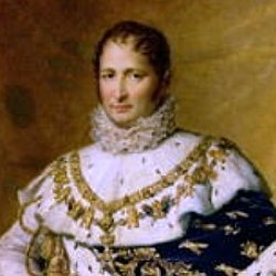 Joseph Bonaparte, King of Spain